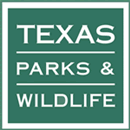 Official logo/seal of the Texas Parks and Wildlife Department